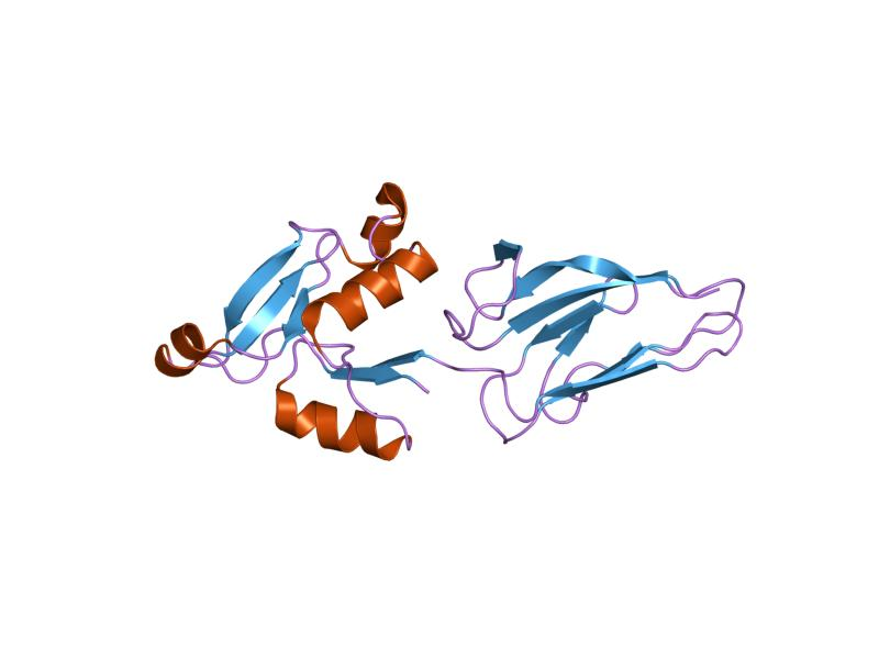 Cartoon representation of the molecular structure of protein registered with 1e5u code.